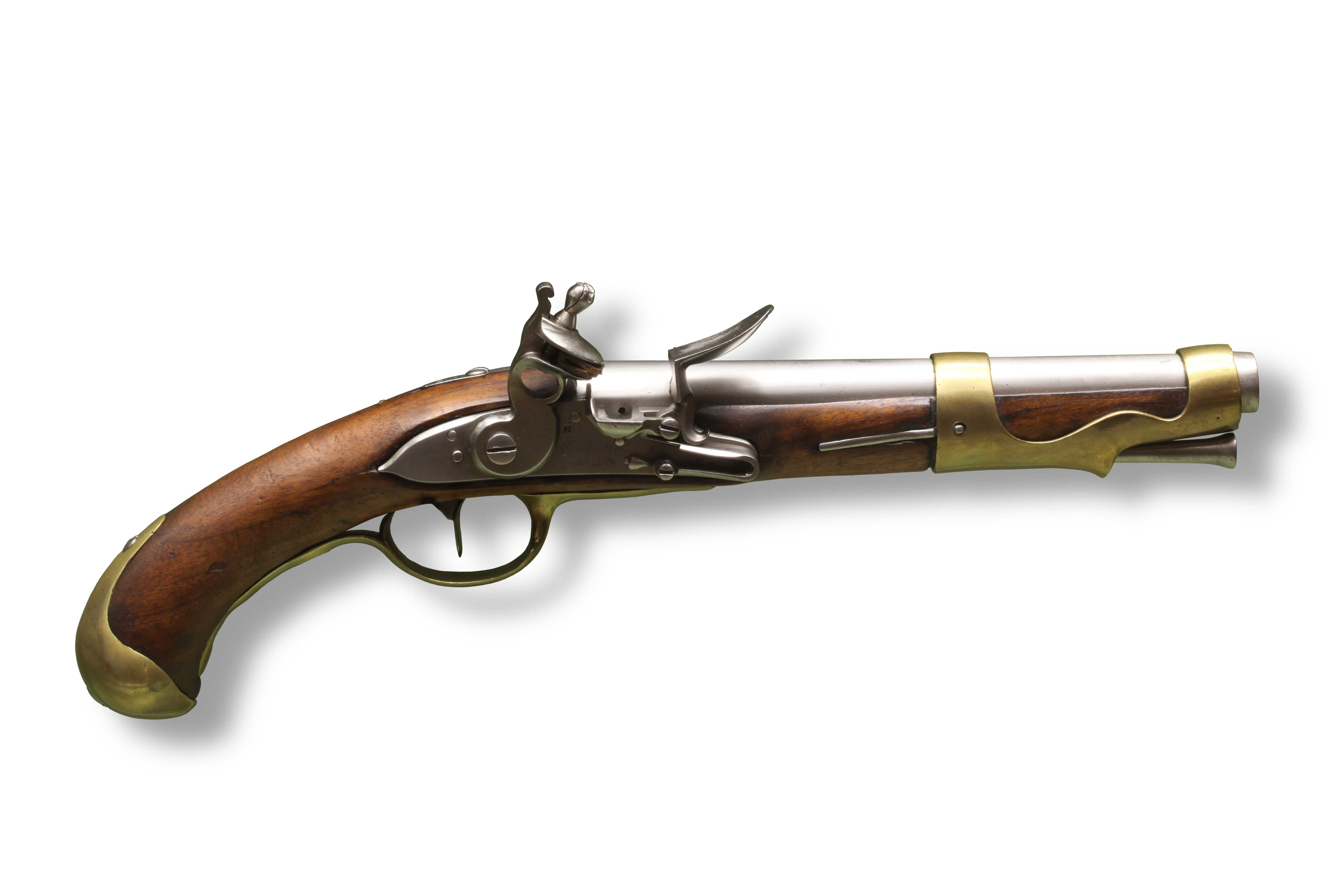 Cavalry silex pistol, model 1766, made circa 1800-1810 by Manufacture de Charleville. On display at Morges military museum.